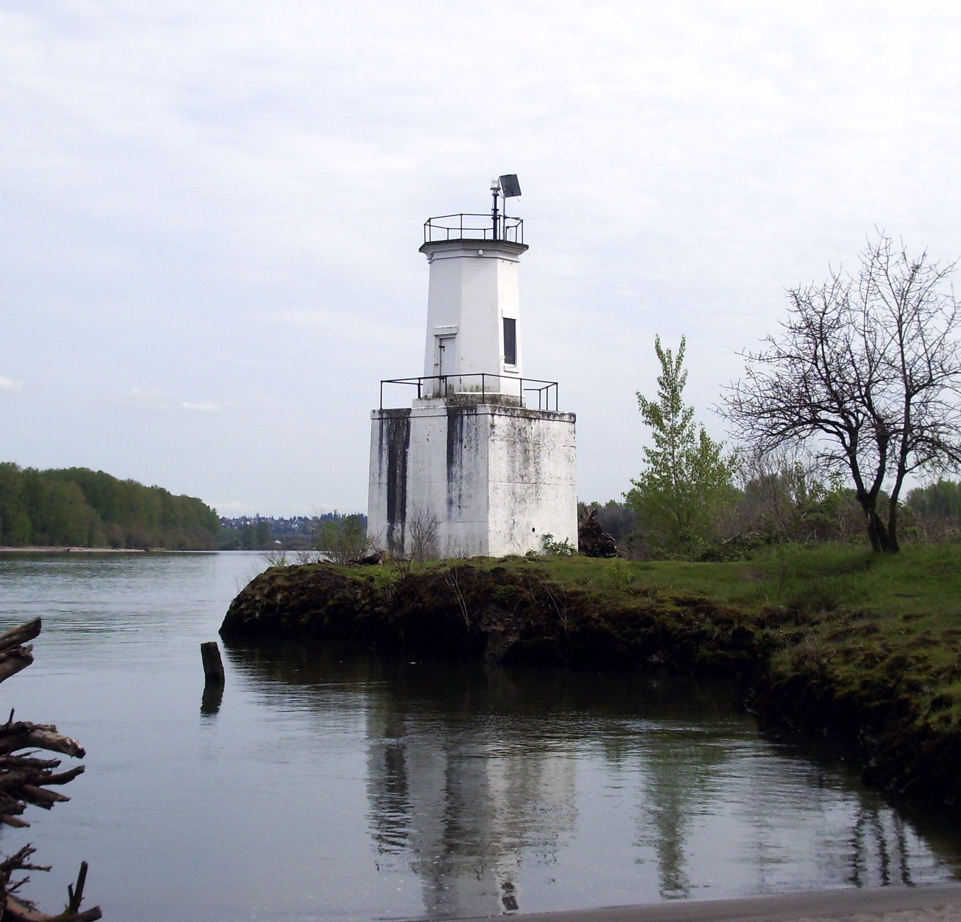 Medium view of Warrior Rock Light as seen from north.